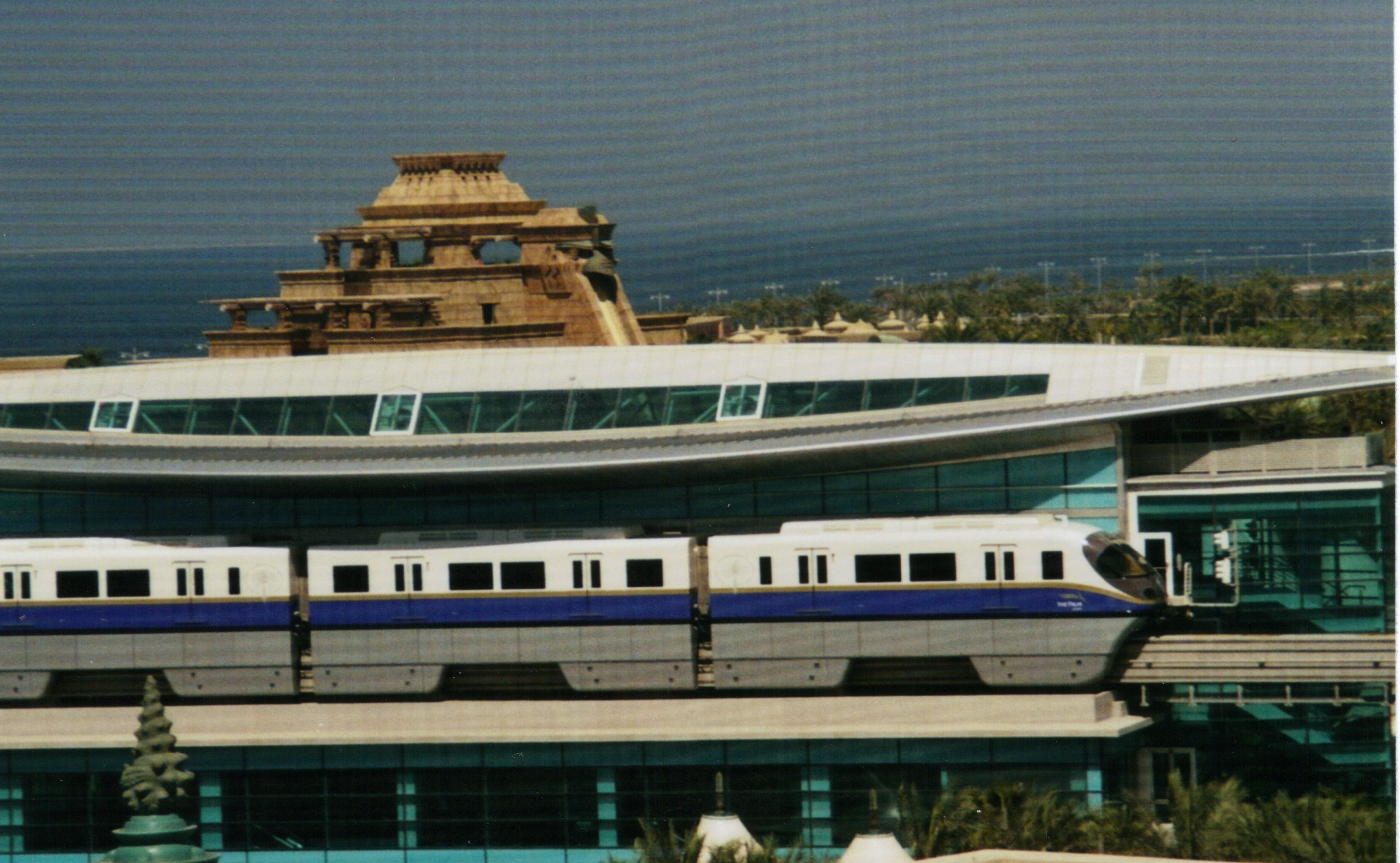 Dubai Monorail, Atlantis Terminal